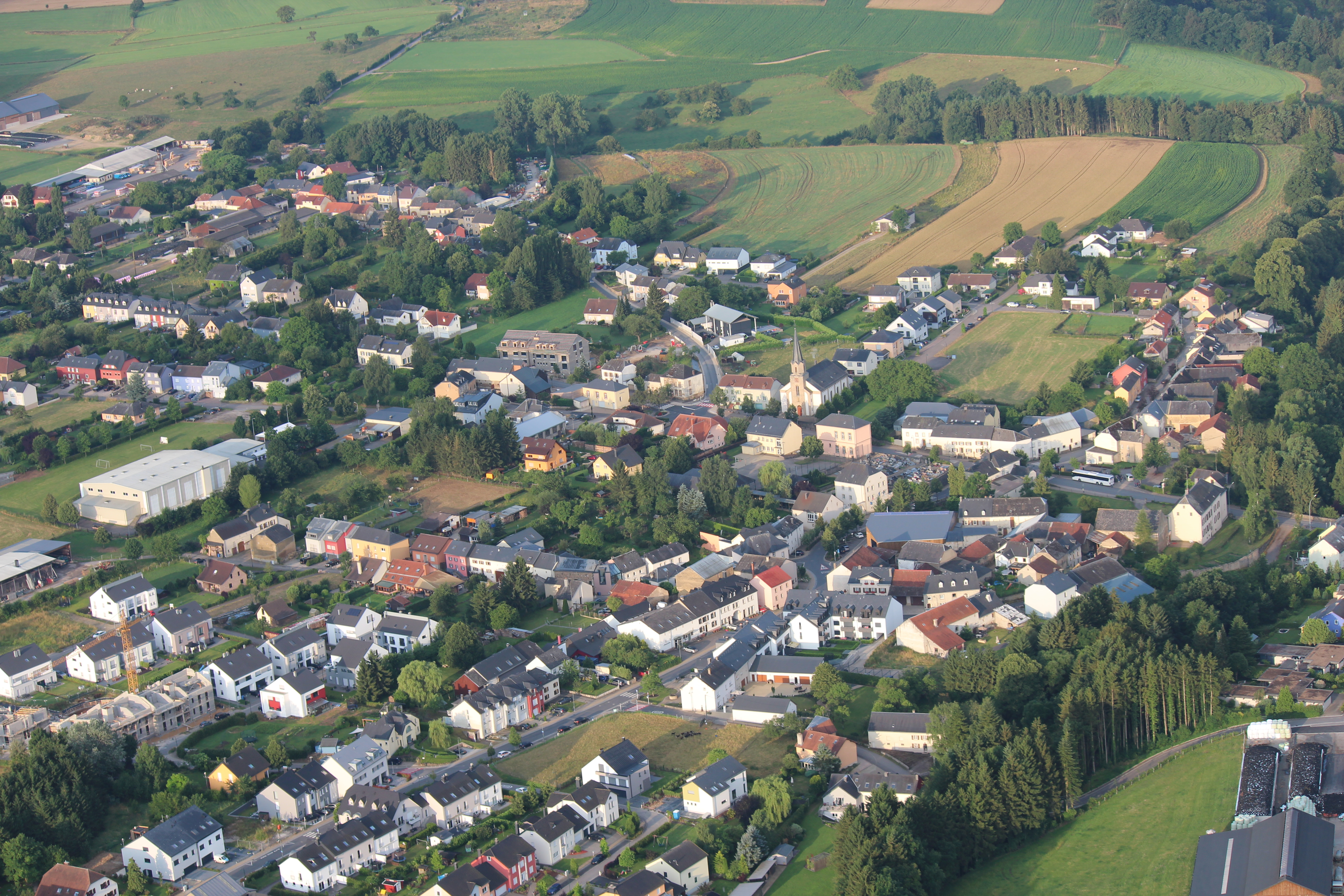 Heffingen (lb.: Hiefenech).